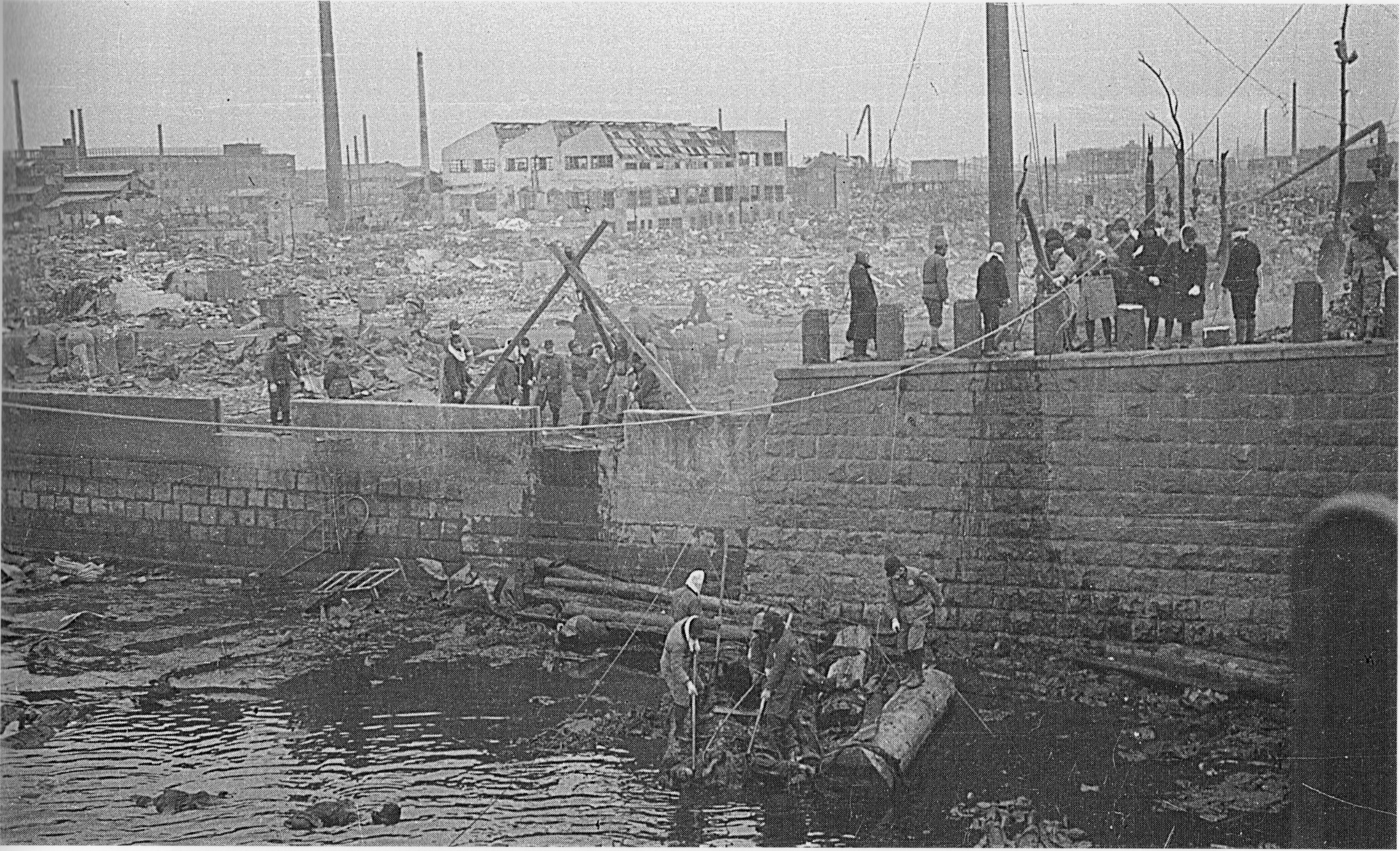 Salvage of Drowned Bodies near Kikukawa Bridge in Honjo